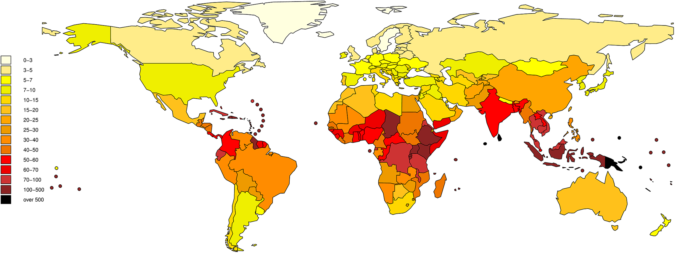 Burden of leptospirosis in terms of DALYs/100,000 per year